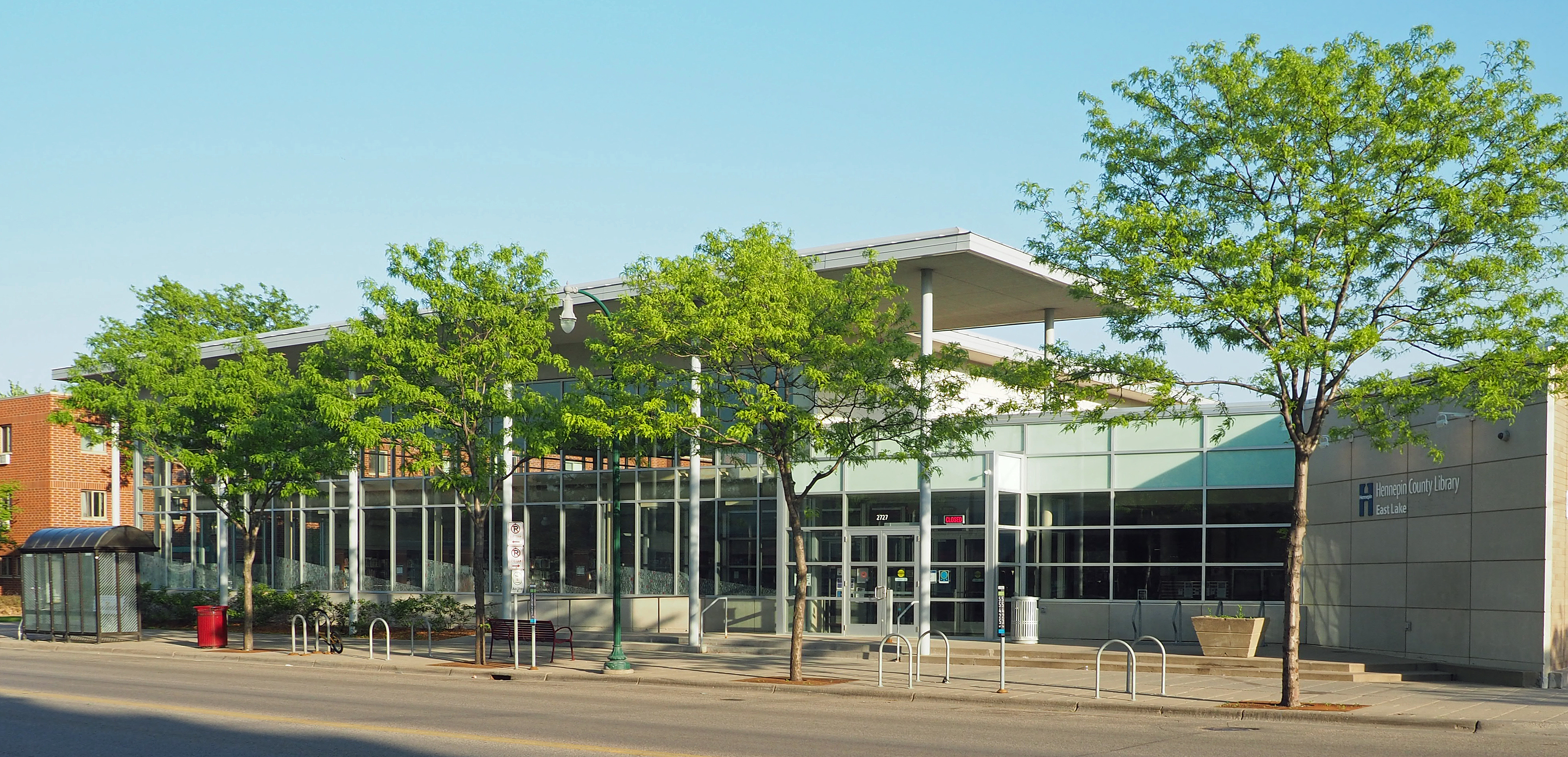 East Lake Library, 2727 E Lake Street, Minneapolis, Minnesota, USA. Viewed from the northwest.